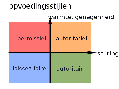 parenting styles